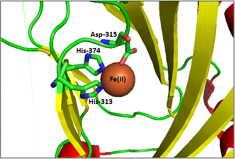 The prolyl hydroxylase 2 (PHD2) enzyme chelates an iron(II) ion via His-313, Asp-315, and His-374. The remaining coordination sites on iron are occupied by water and the 2-oxyglutarate cosubstrate (not shown).